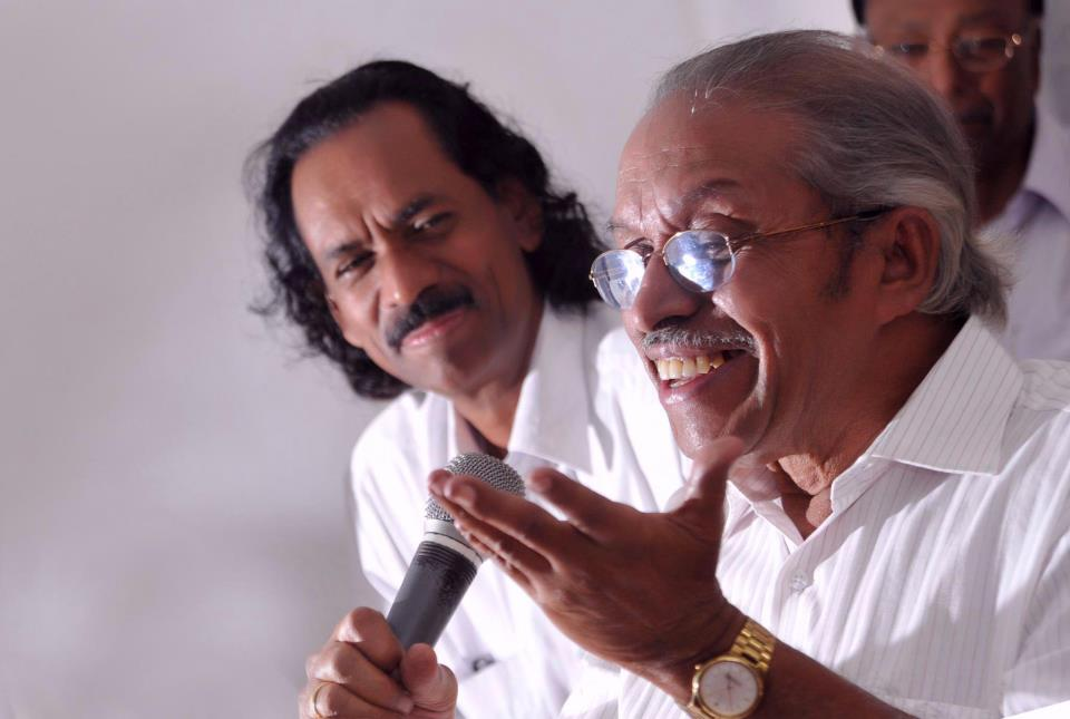 At a cultural camp at Kozhikode